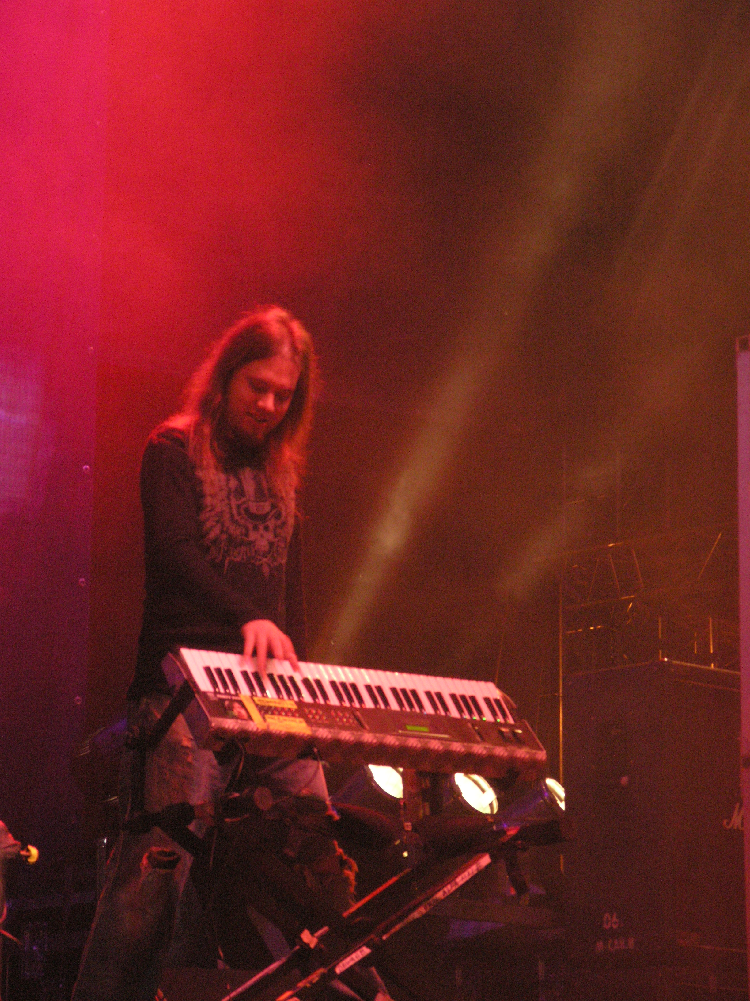 Janne Warman from Children of Bodom during Masters of Rock 2007 festival